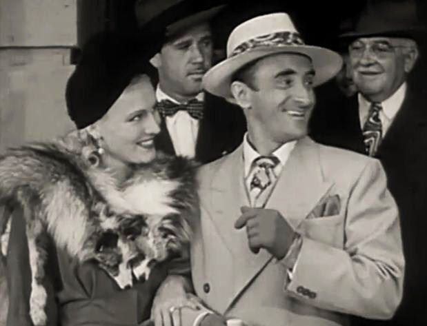 June Clyde & Leon Belasco (white hat) in Hollywood and Vine - cropped screenshot